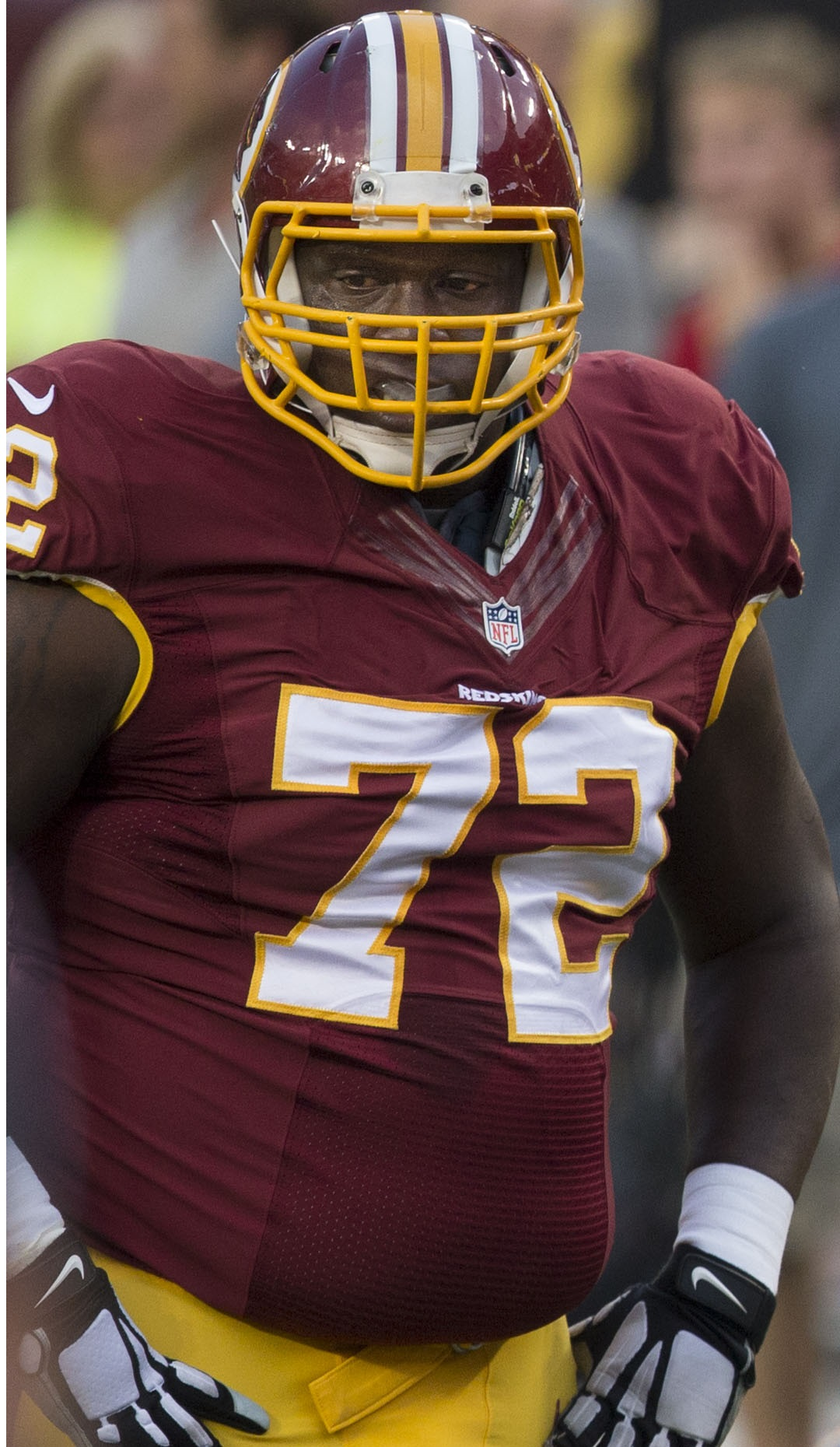 Jaguars at Redskins 9/3/15